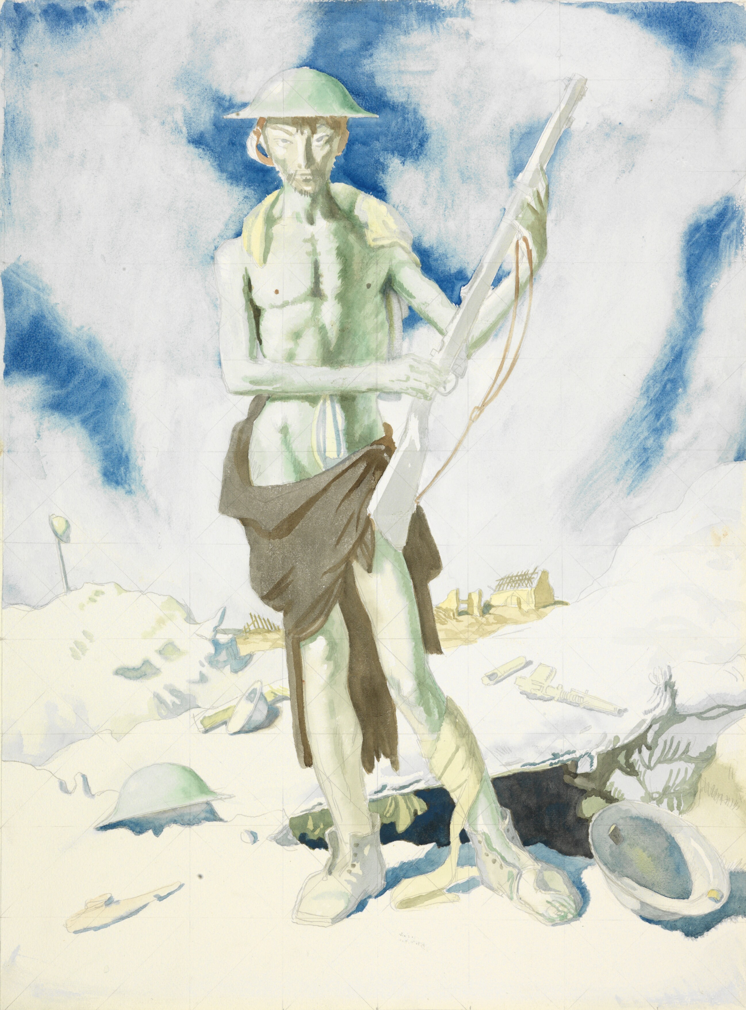 Blown Up image: a full length depiction of a soldier, seemingly shell-shocked, standing in front of the edge of a dugout. It seems that his clothes have literally been blown away from his body, for he is naked but for a scrap of blanket across his hips, his boots and helmet. He stands in a classical pose holding the rifle delicately in his fingers and pointed away from his body. The ground is littered with debris, and there are the ruins of a village in the background.